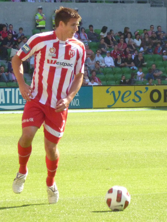 Australian football player Michael Marrone playing for Melbourne Heart.